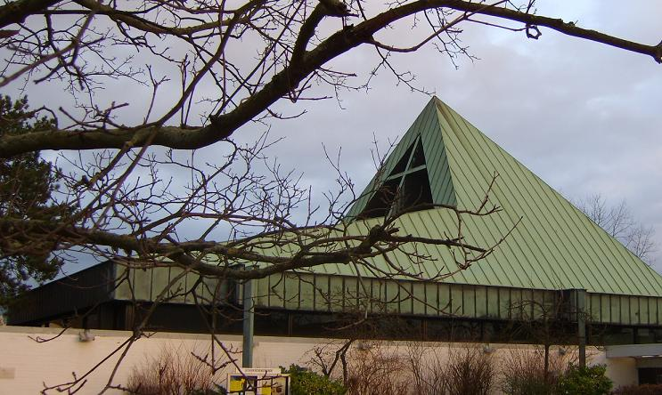 Luther church in Frankenthal (Pfalz)